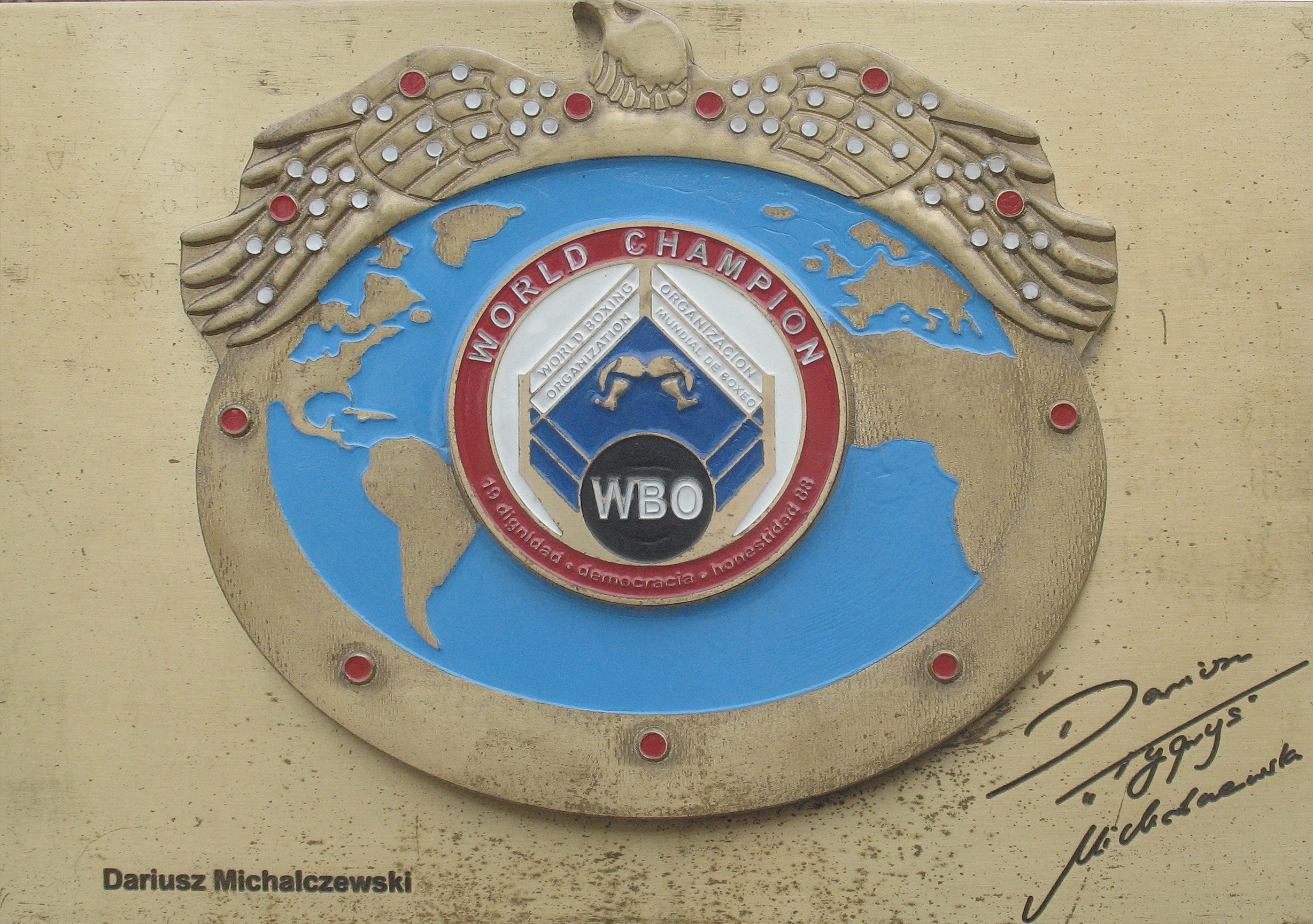 Dariusz Michalczewski belt & autograph in Avenue of Sport Stars Dziwnów